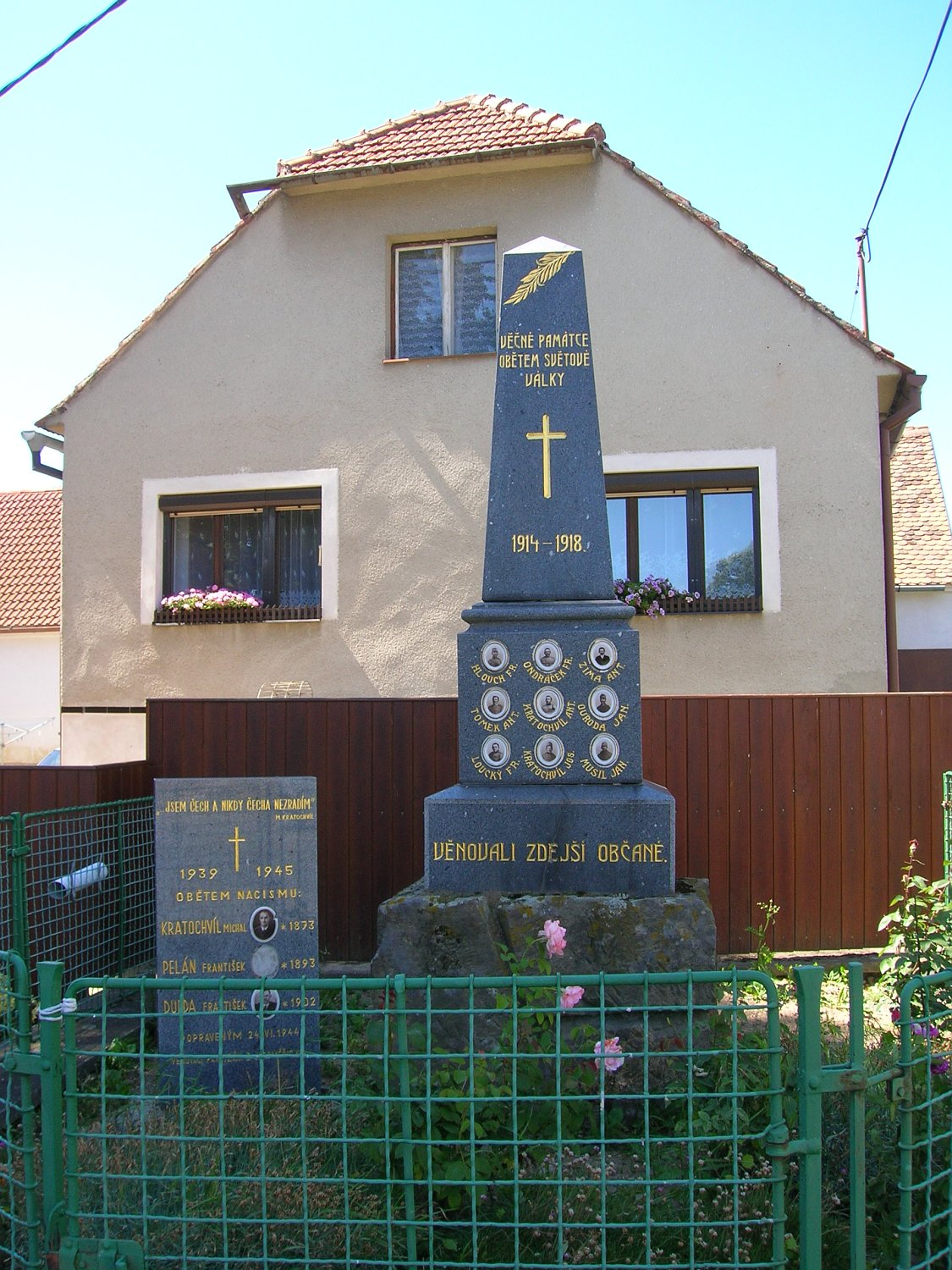 Jaroměřice nad Rokytnou-Boňov. War memorial